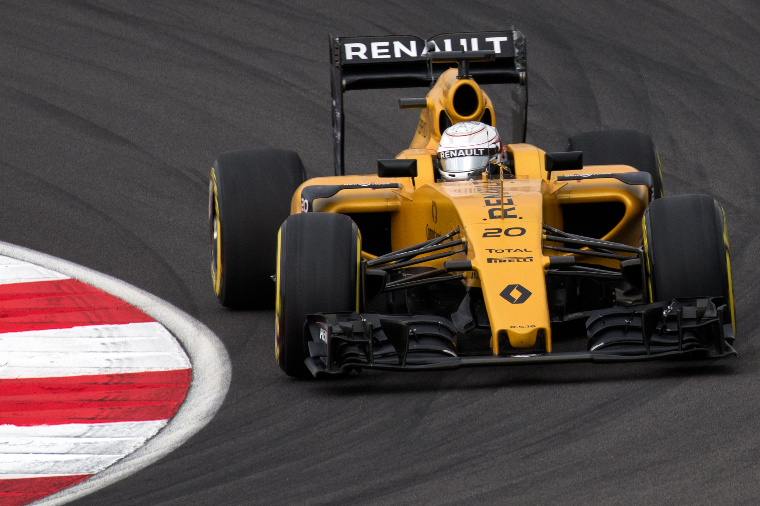 Formula One 2016 Rd.16 Malaysian GP: Kevin Magnussen (Renault)